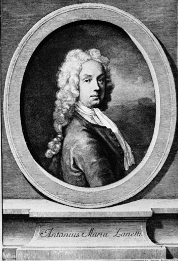 Portrait of Anton Maria Zanetti senior (1680-1757), Italian engraver